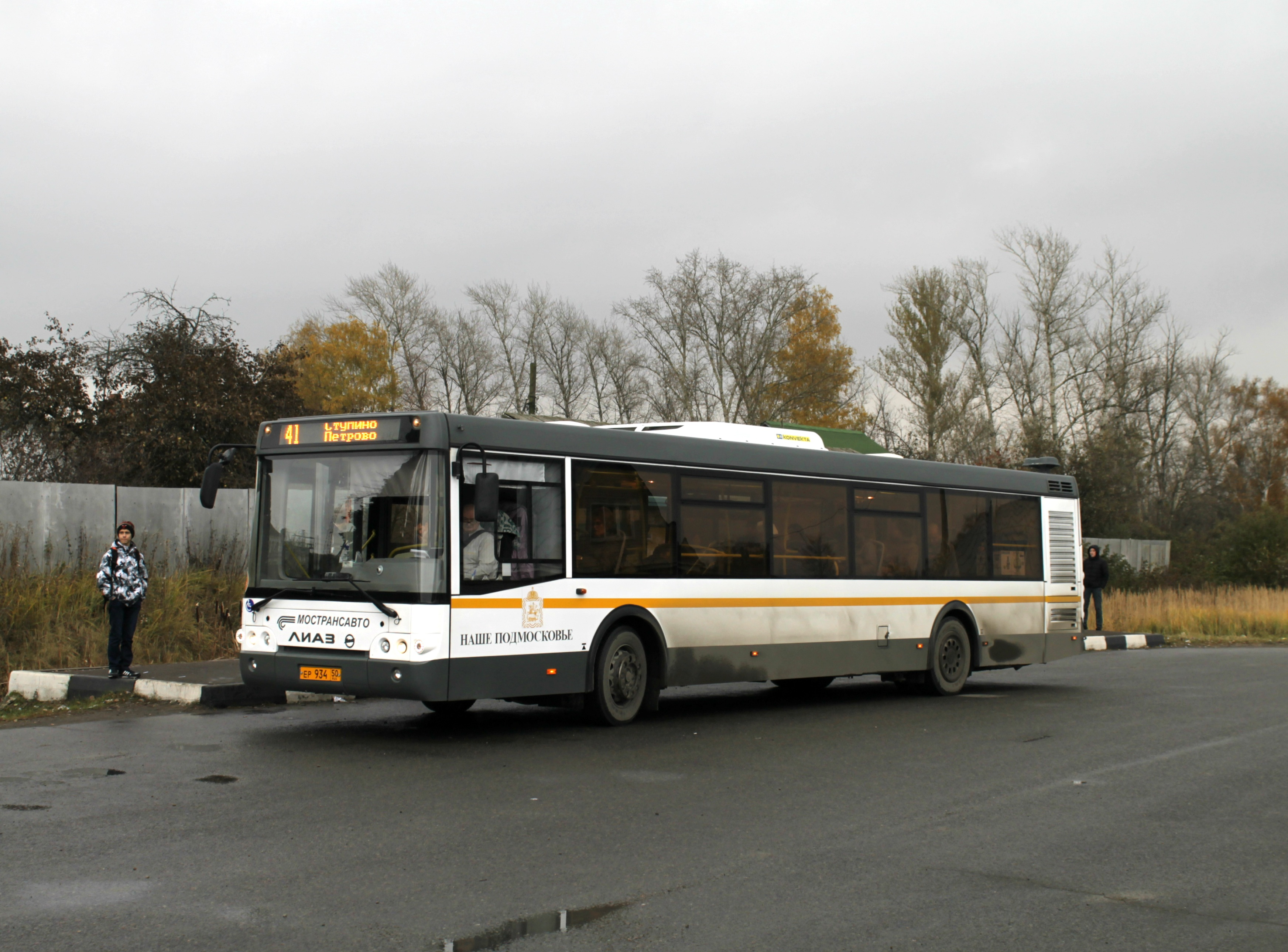 Shuttle bus station near Zhilevo train station